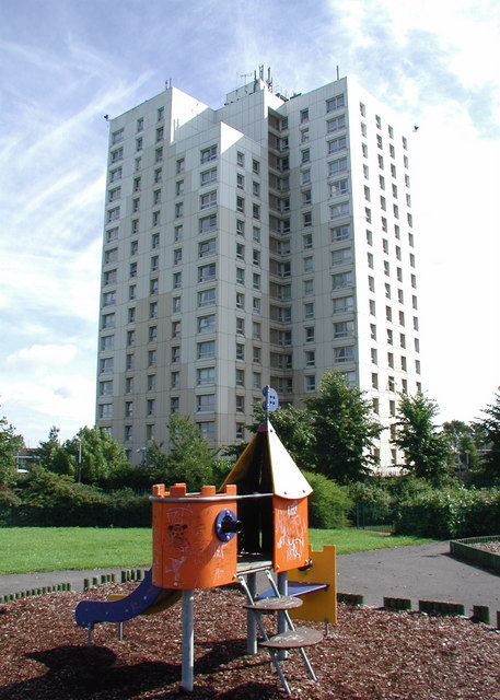 Gatwick House, Bransholme Block of flats on the Bransholme estate in north Hull, looking north across the children's playground.